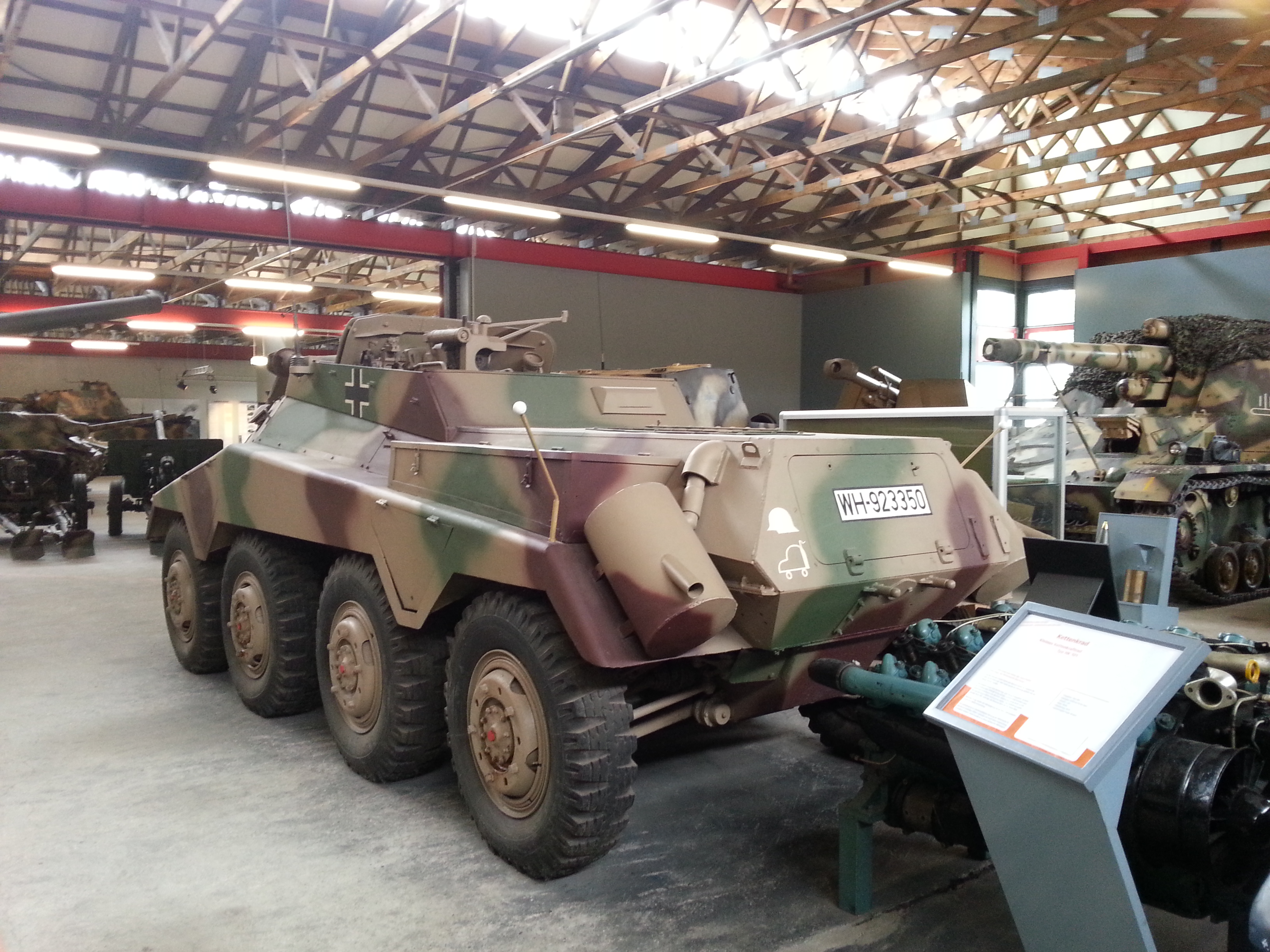 Sd.Kfz 234/4, Deutsches Panzermuseum Munster